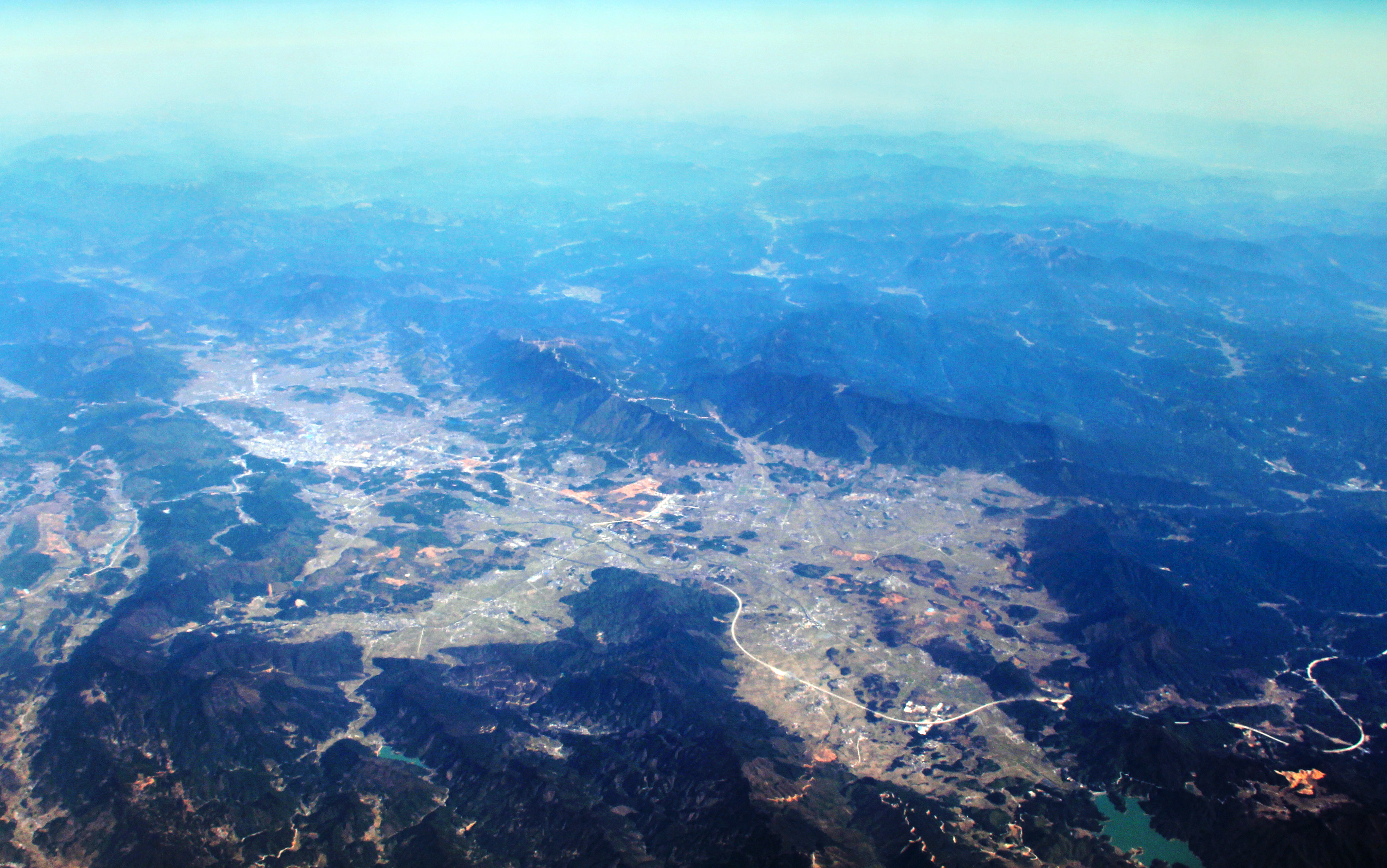 photo taken on plane